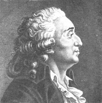 Nicolas de Condorcet, transfered from fr